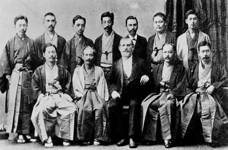 Professor Julius Hirschberg together with the Inouye Ophthalmic Organization upon his arrival in Yokohama (September 24, 1892). To his right is Tatsuya Inouye (1848–1895). Jujiro Komoto (1859–1938) is sitting first left in the first row. Tatsushichi Inouye (1869–1902) is standing top row far right.